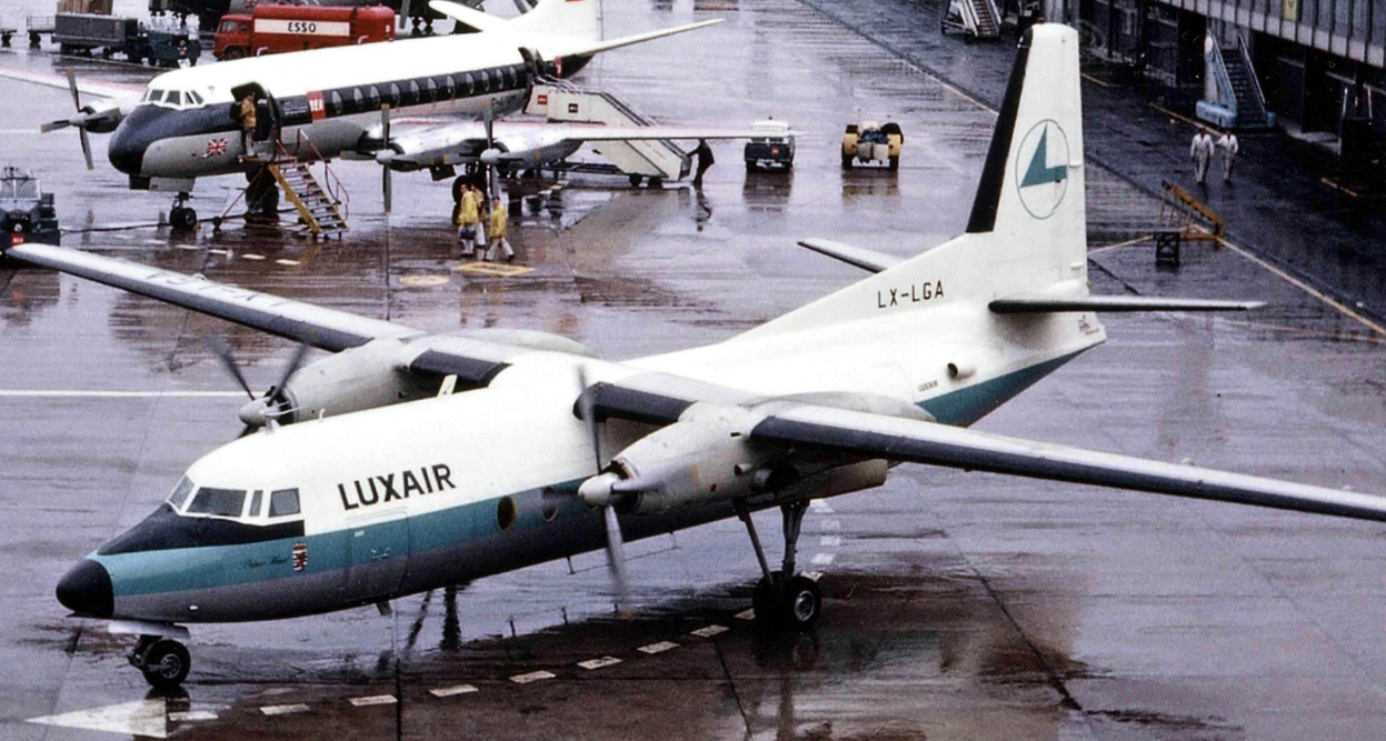 Fokker F.27-100 Friendship LX-LGA of Luxair at Manchester Airport in 1966